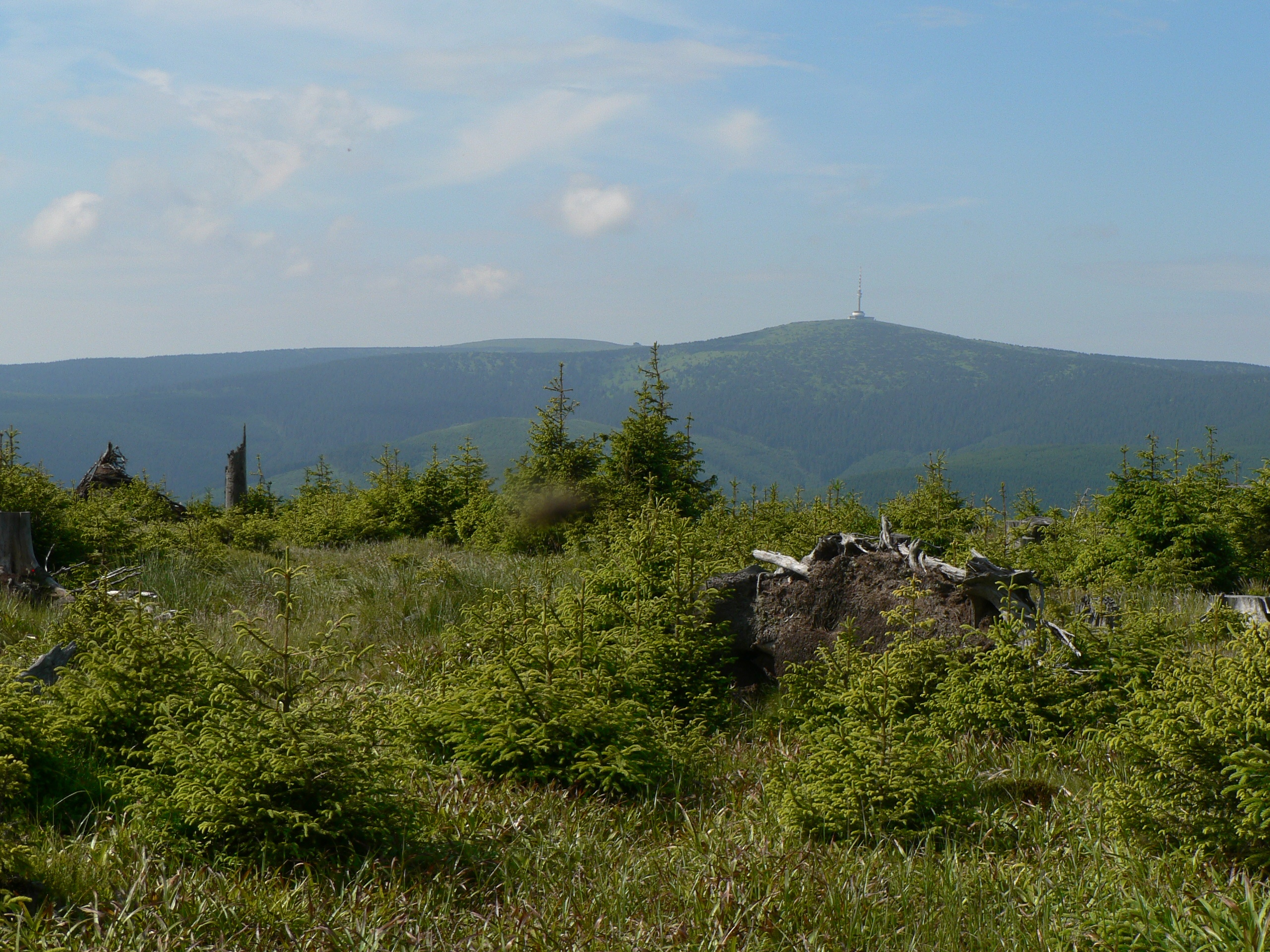 Praded from Jeleni loucky Mt., Hruby Jesenik Mts., Czech republic.